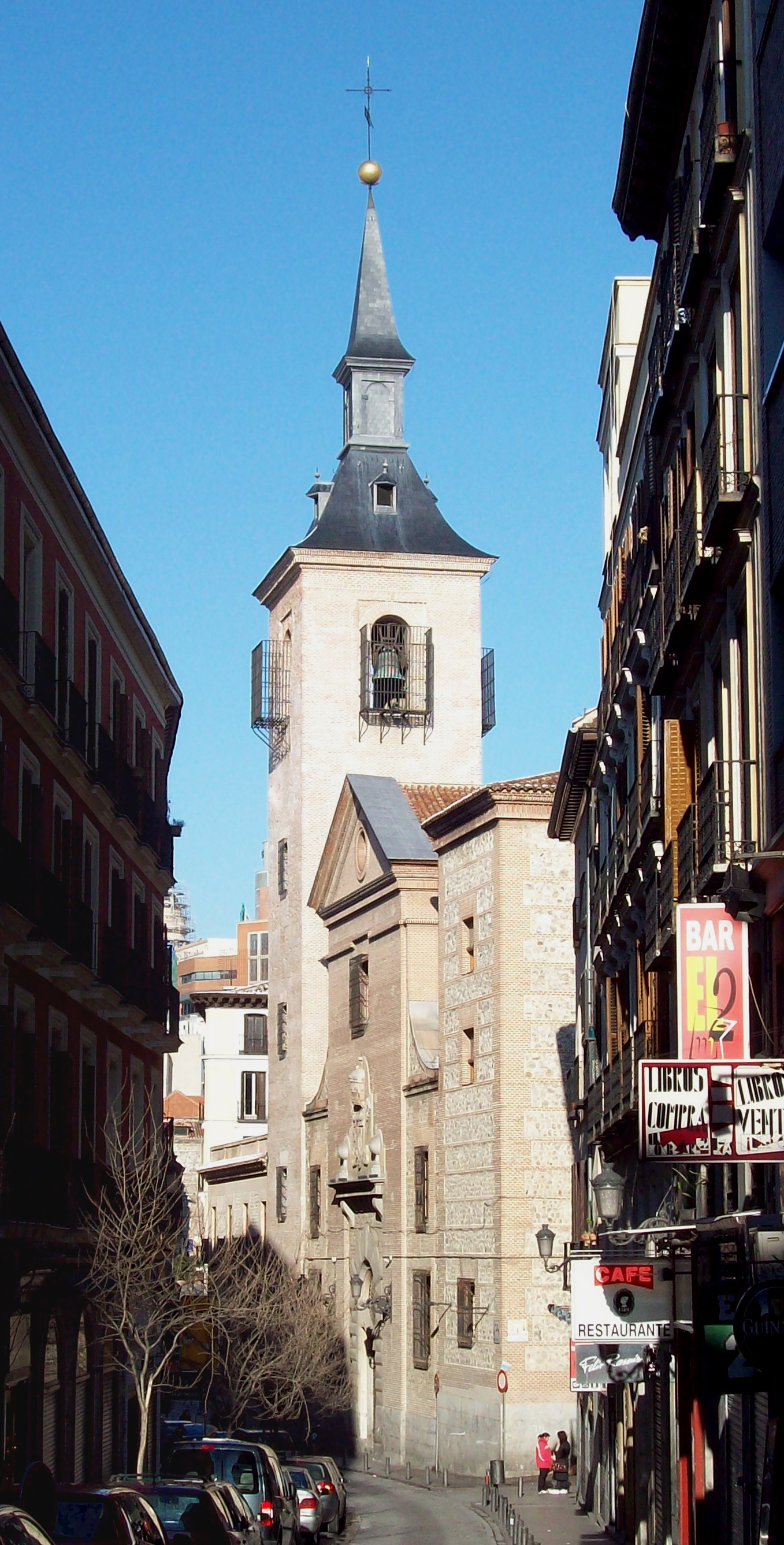 View, from the south-west angle, of St. Genesius Church in Madrid (Spain).